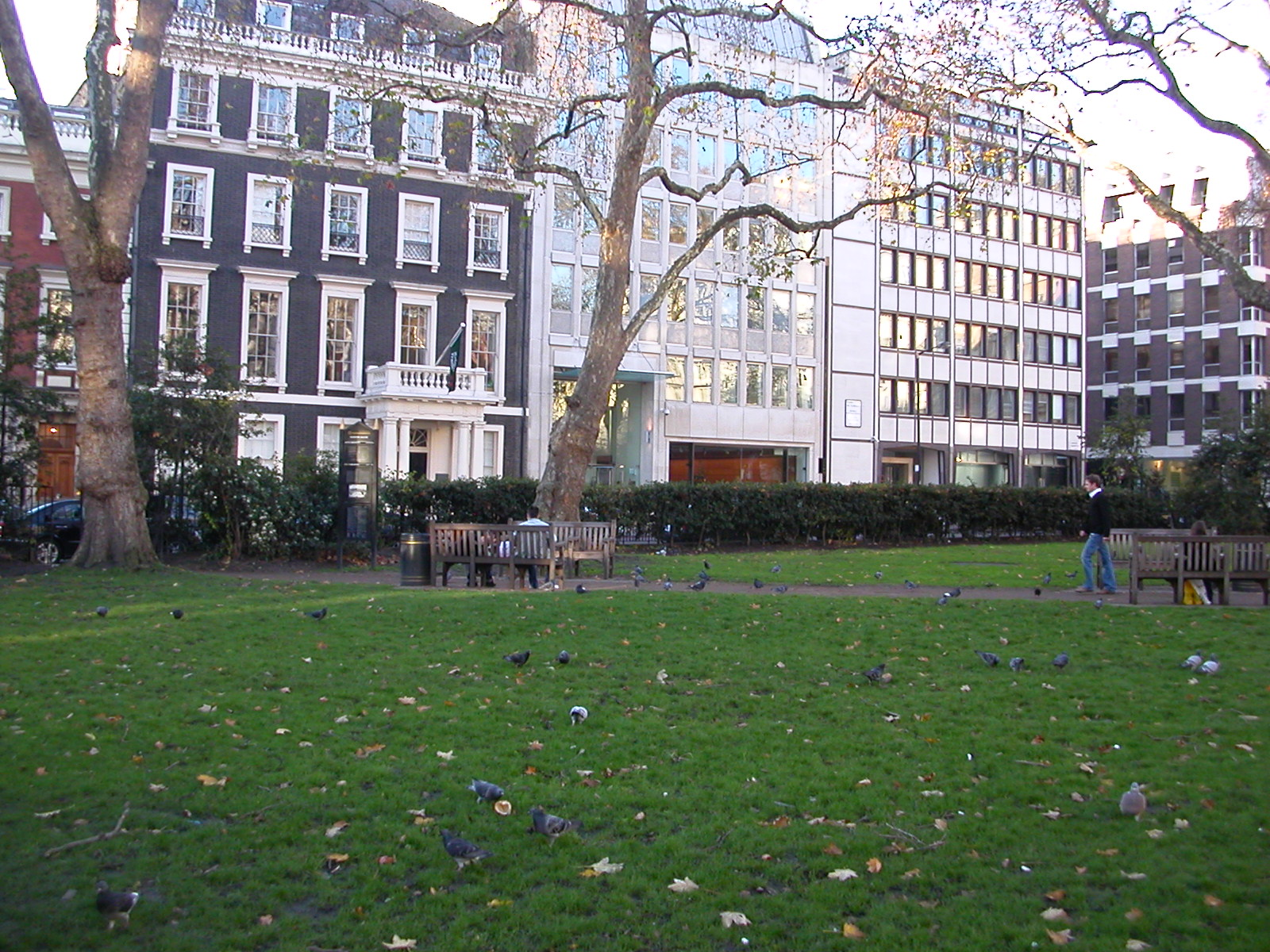 View of Hanover Square, London, looking to the NW. Photographed on 16th December 2006.